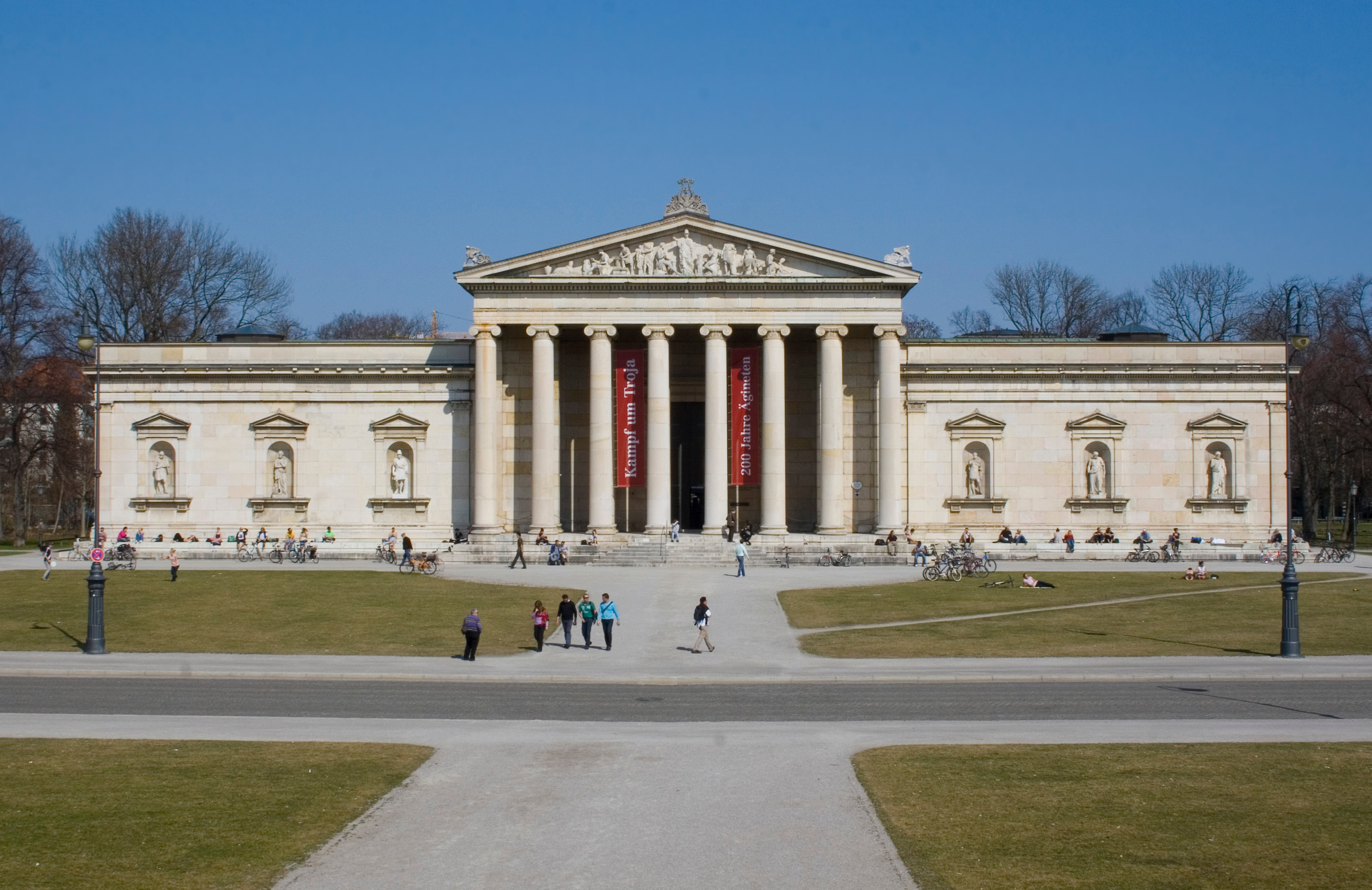 Glyptothek, Königsplatz, Munich, Germany